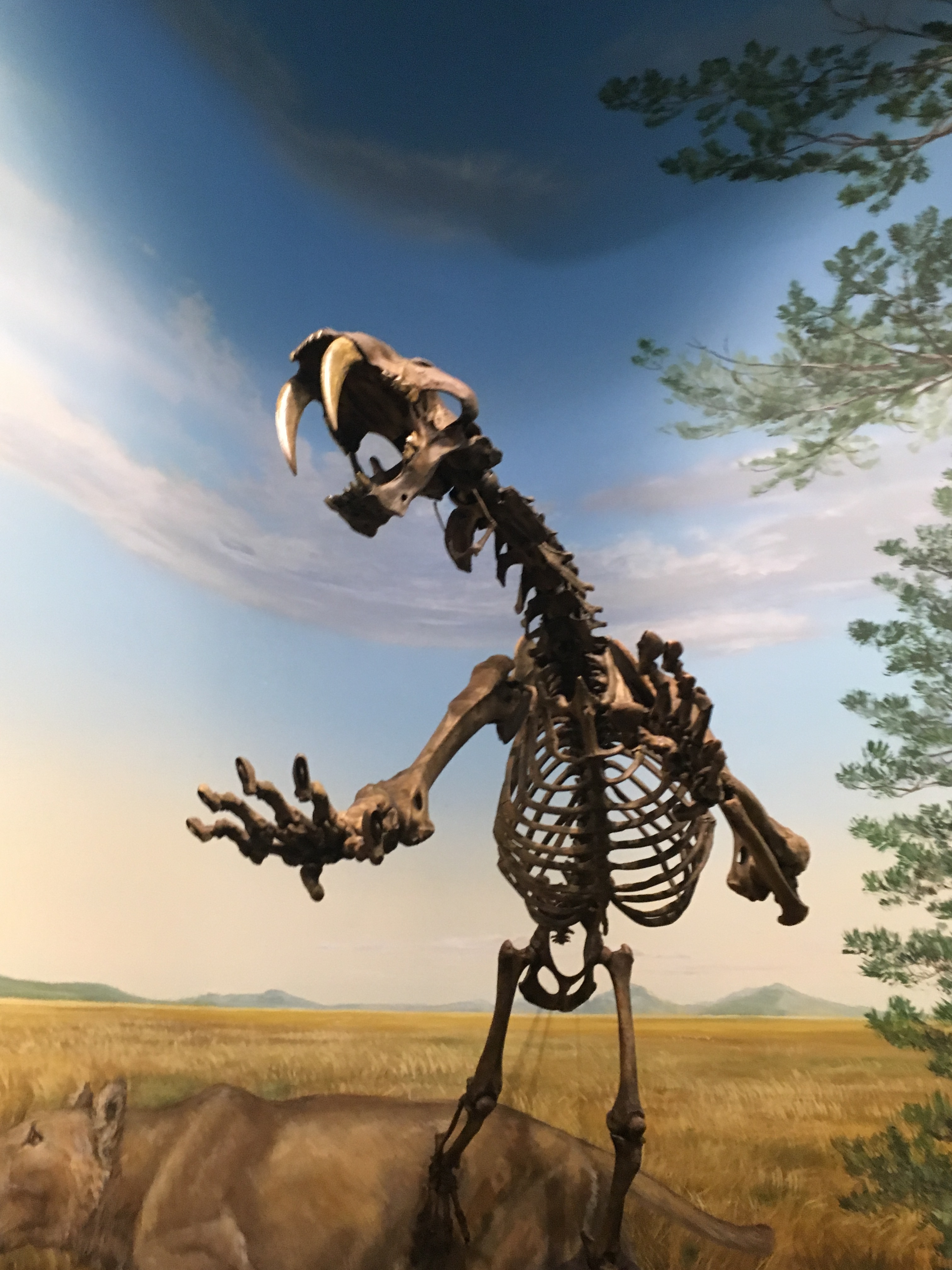 Smilodon skeleton in standing position